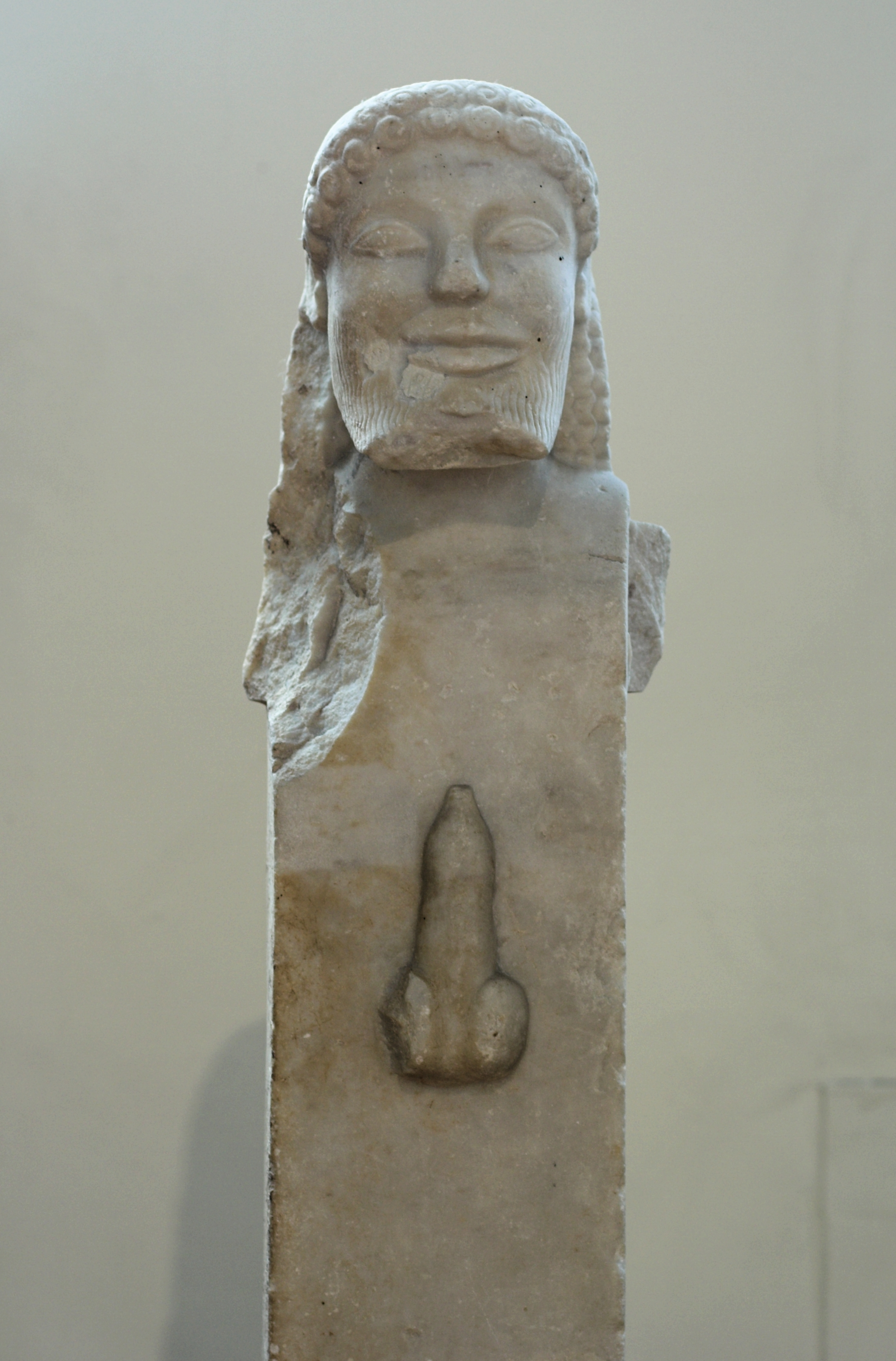 Hermes ithyphallicus, Herm form Sifnos, islandic marble, circa 520 BC. National Archaeological Museum of Athens N 3728.